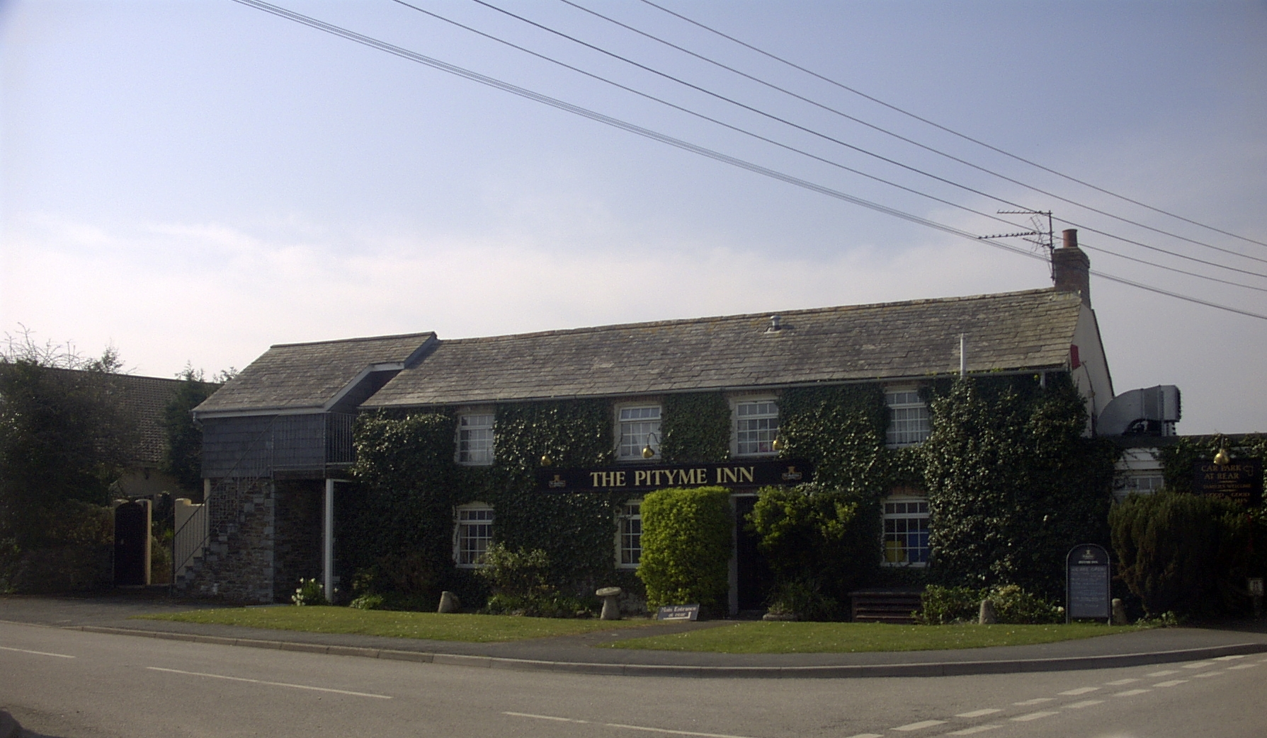 Photo of the pub in pityme village